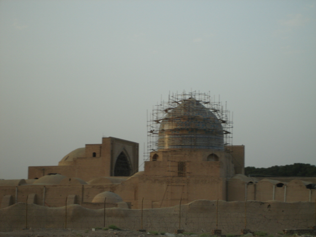 View of Saveh Congregational Mosque